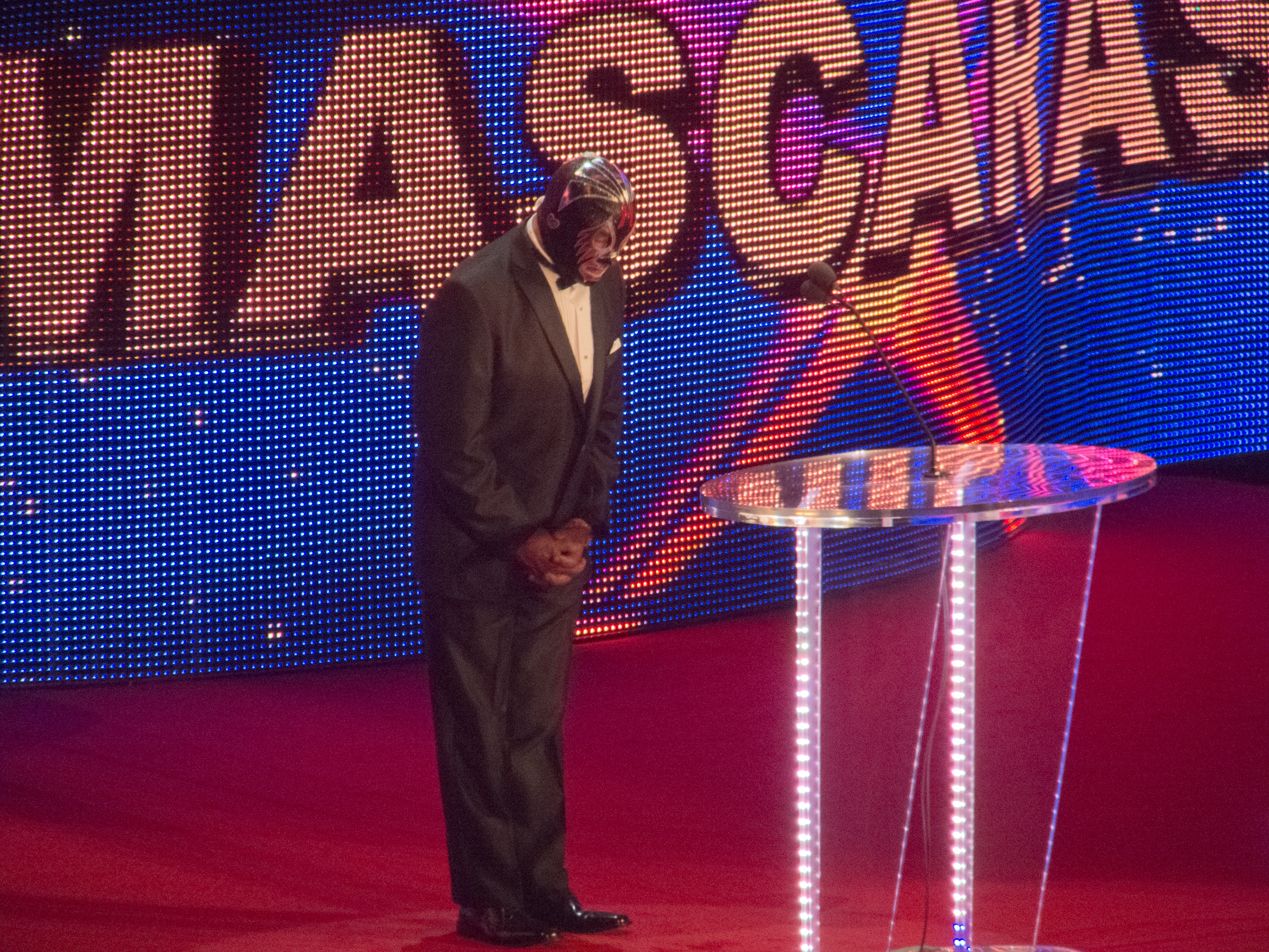 WWE Hall of Fame 2012 - Mil Mascaras